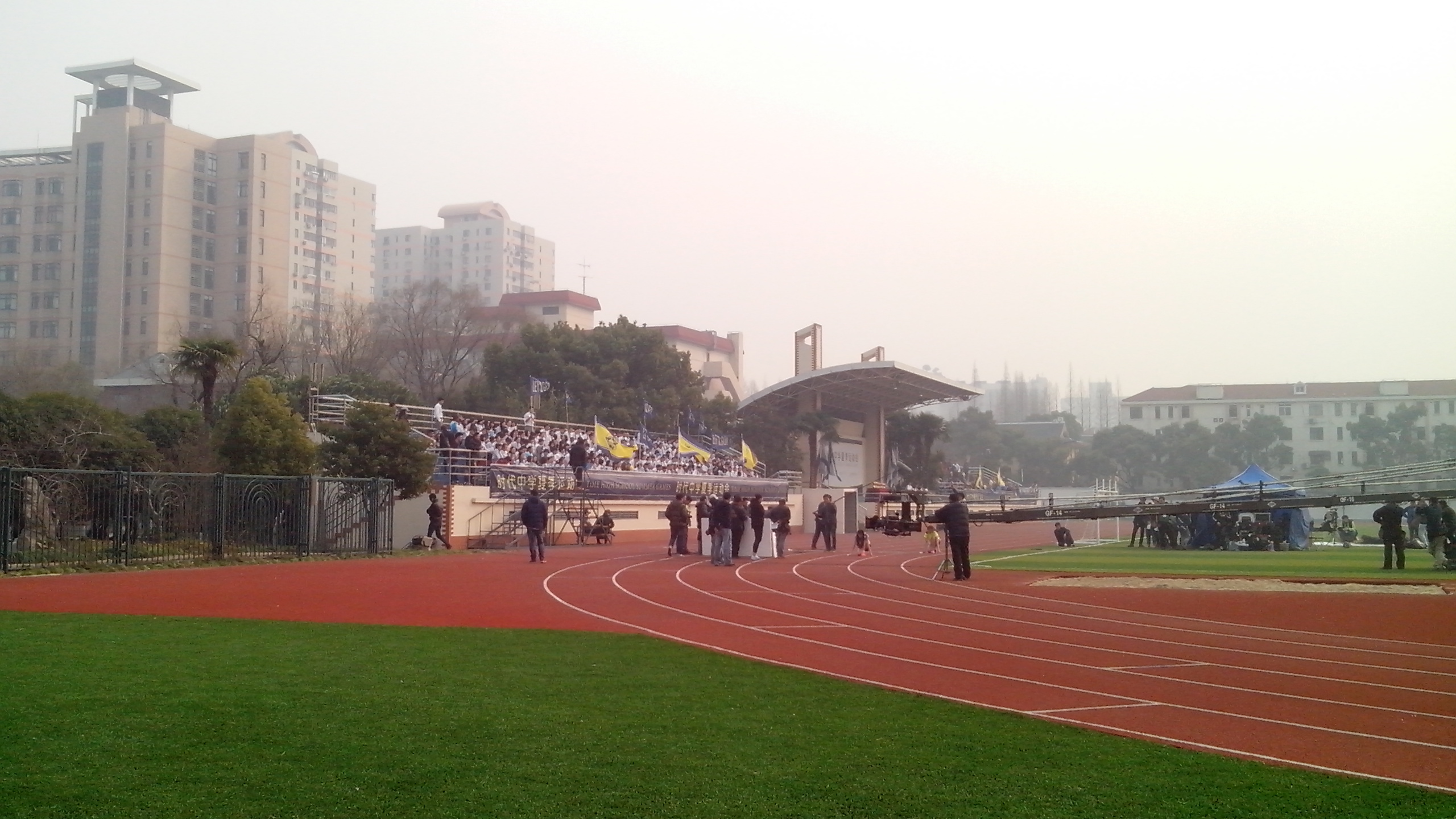 Tiny Times 3.0 Film Set